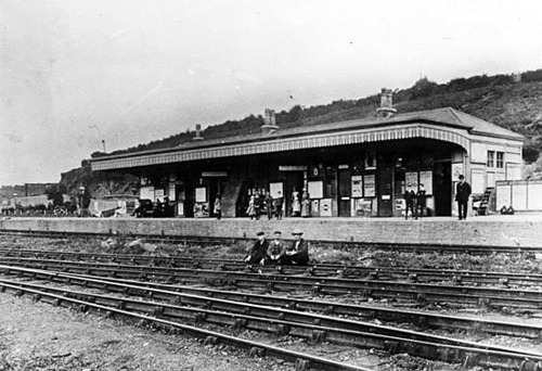 Milford Haven Railway Station, viewed from the west, circa 1880's